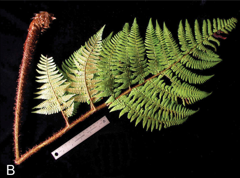 Dryopteris macropholis, frond (Ua Huka, Wood 10489, type)